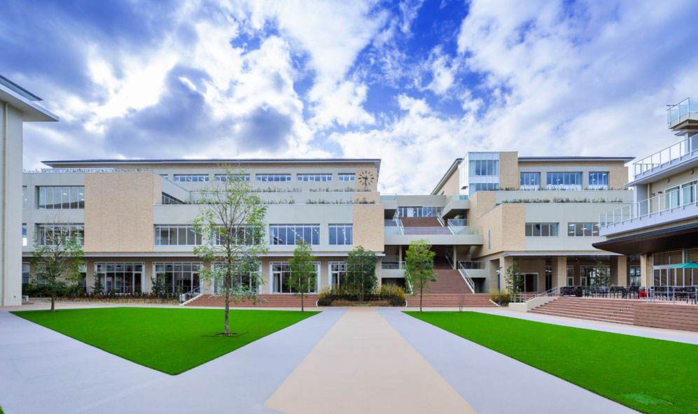 Kyoto University of Advanced Science - south-bldg